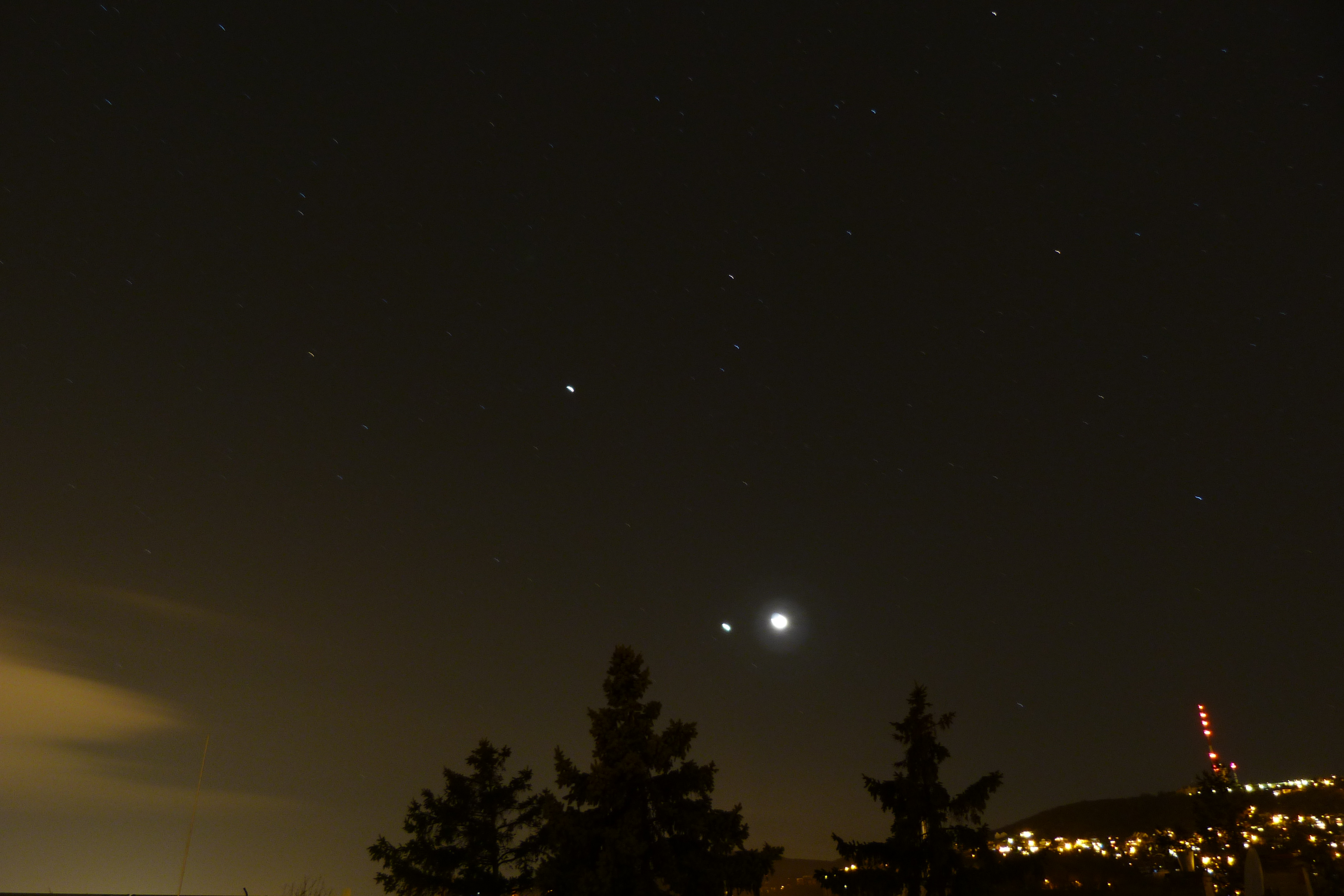 A felvétel 2012. február 25 -én 19 óra 44 kor készült Budapesten, a Sashegyről. A Vénusz, a Jupiter és a Hold együttállása a nyugati égbolton, Kakukkhegy felett.